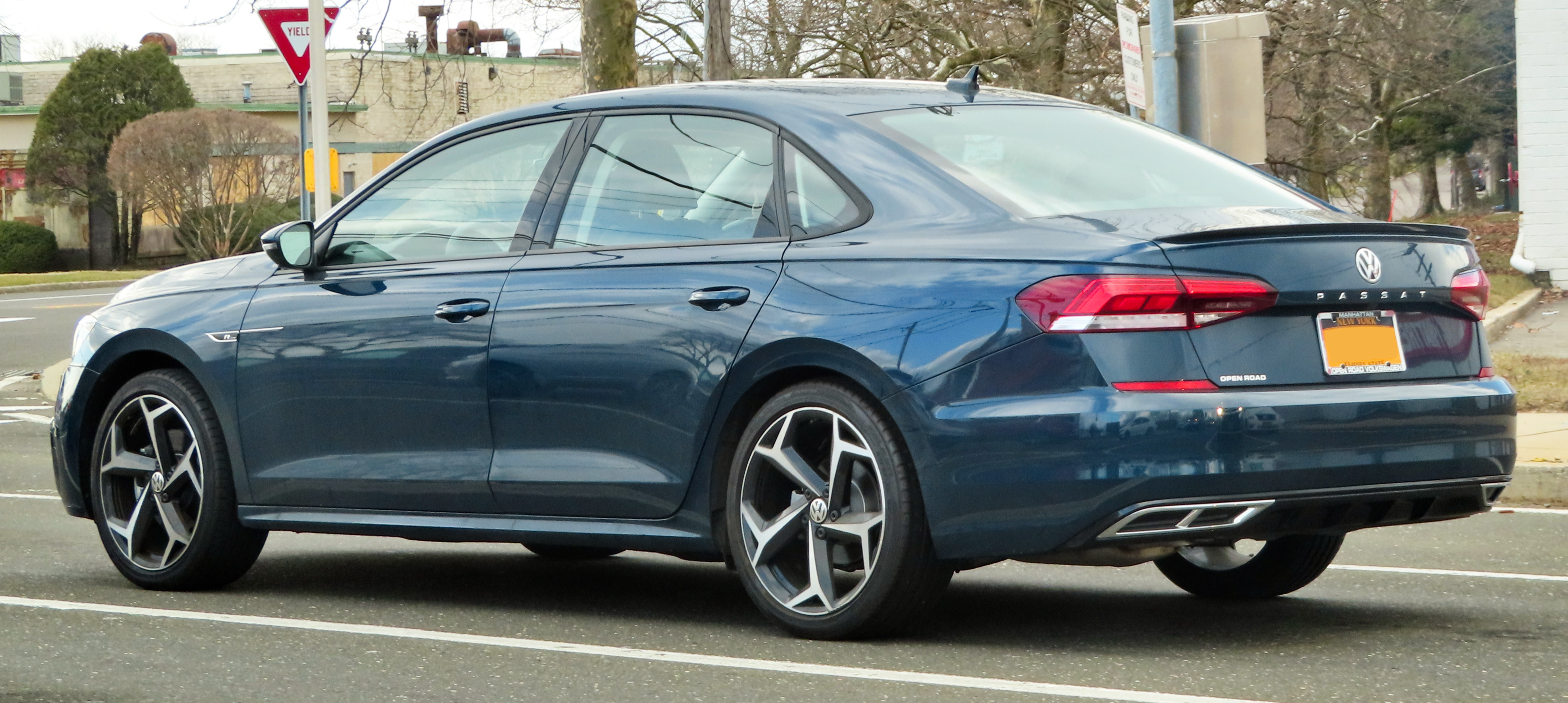 A 2020 Volkswagen Passat R-Line photographed in Huntington, New York, USA